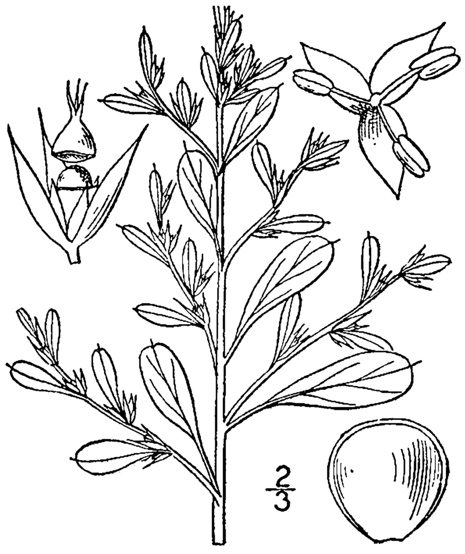 Amaranthus albus L. - prostrate pigweed